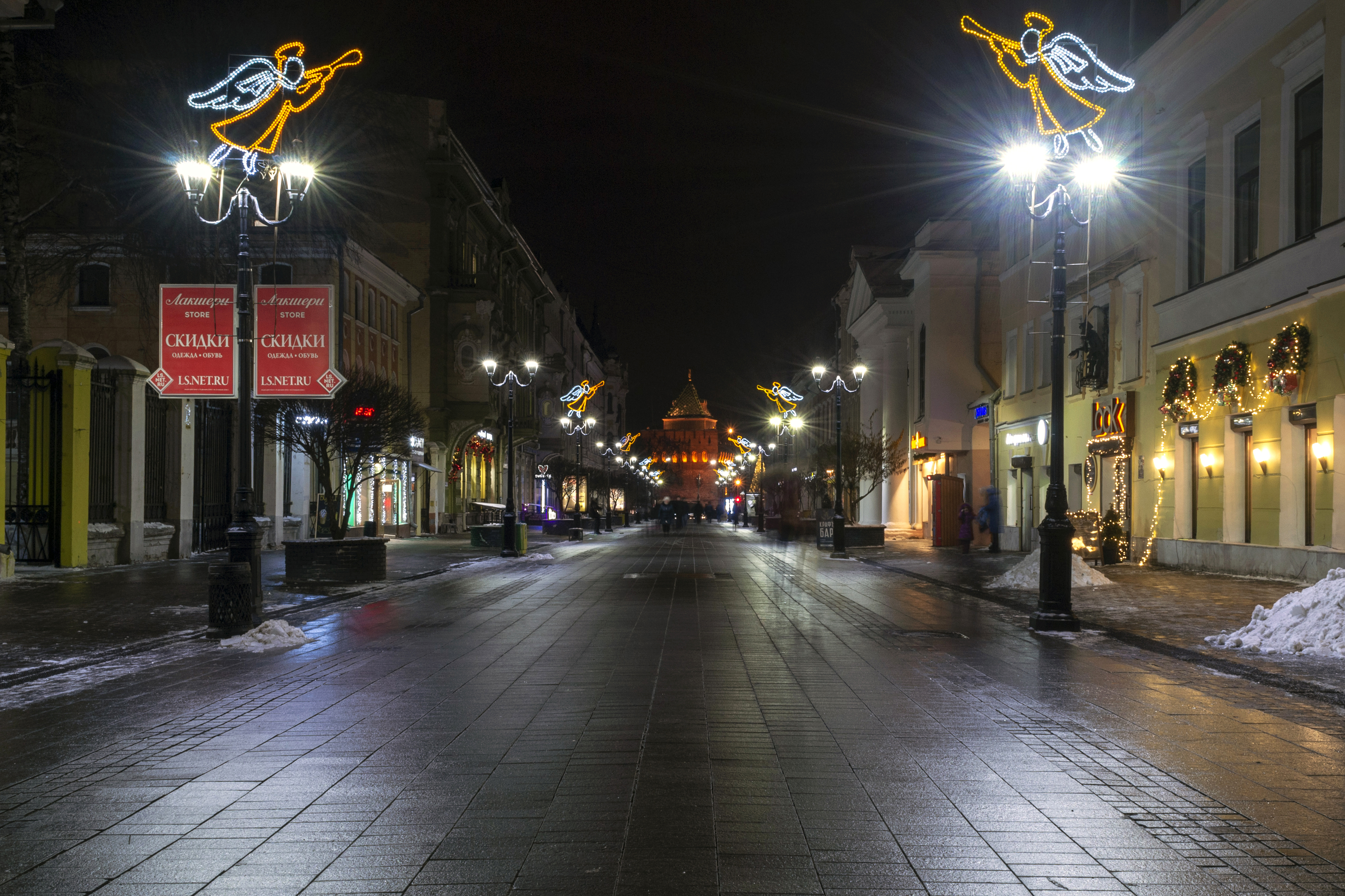 New Year decorations on Bolshaya Pokrovskaya Street, Nizhny Novgorod